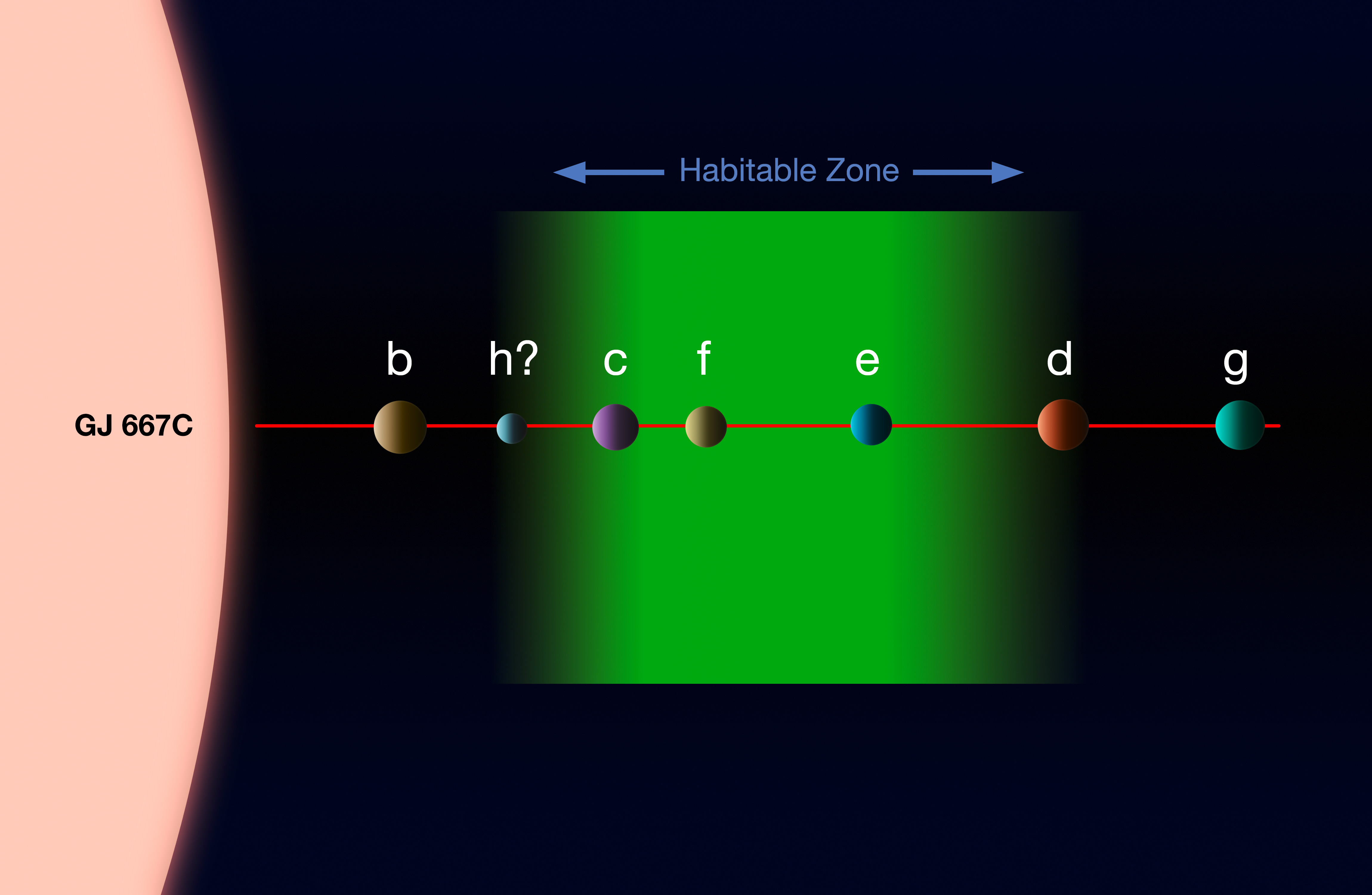 The planetary system around Gliese 667C